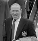 Matt Busby, Manchester United's manager in the 1950s.